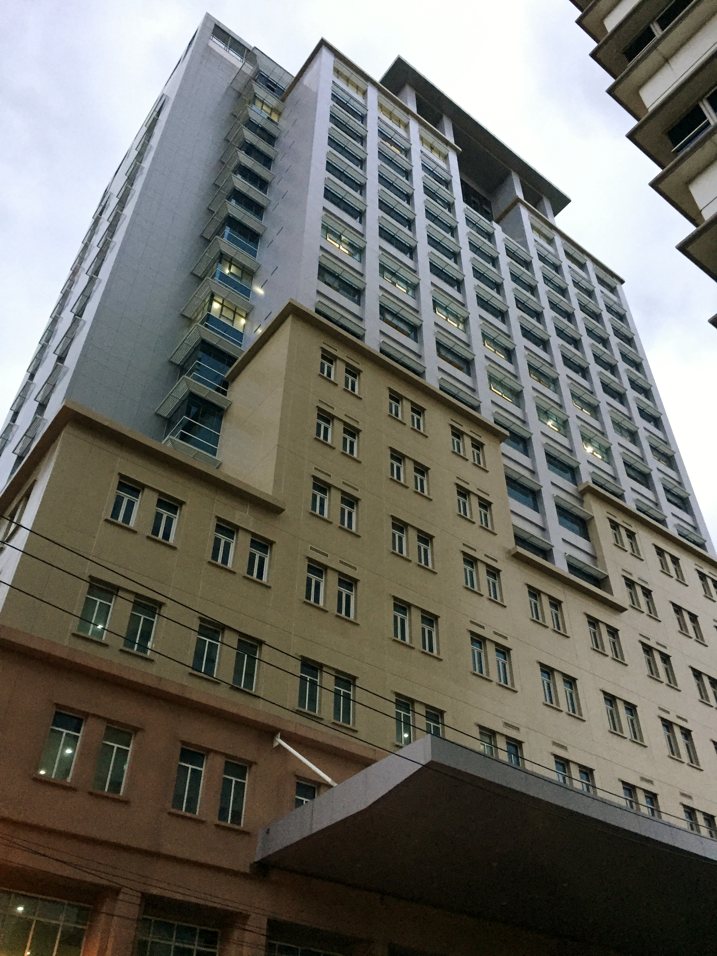 Sirindhorn Building or "Sor Tor" Building at King Chulalongkorn Memorial Hospital.